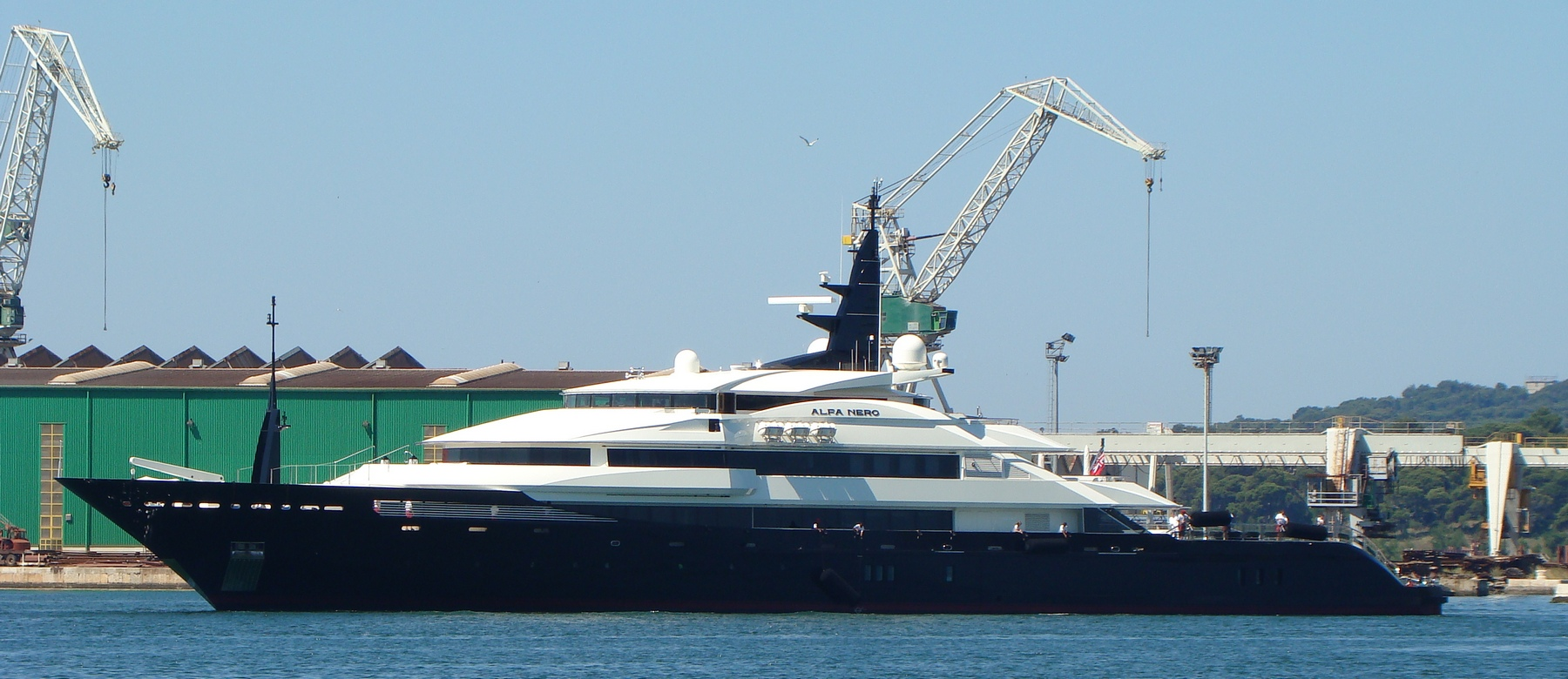 Luxury yacht Alfa Nero in Pula port